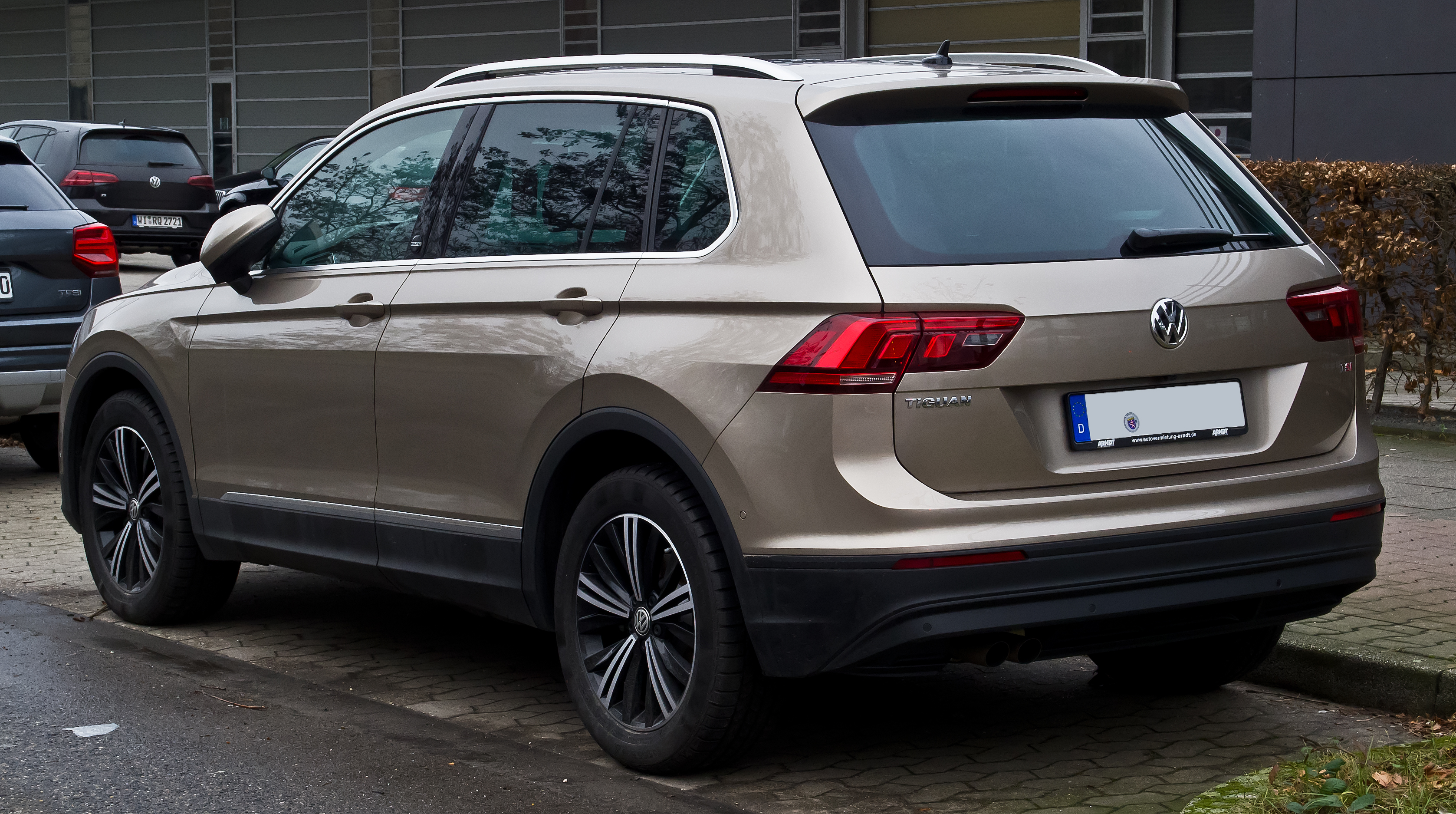 VW Tiguan 2.0 TSI BlueMotion Technology 4MOTION Sound (II)